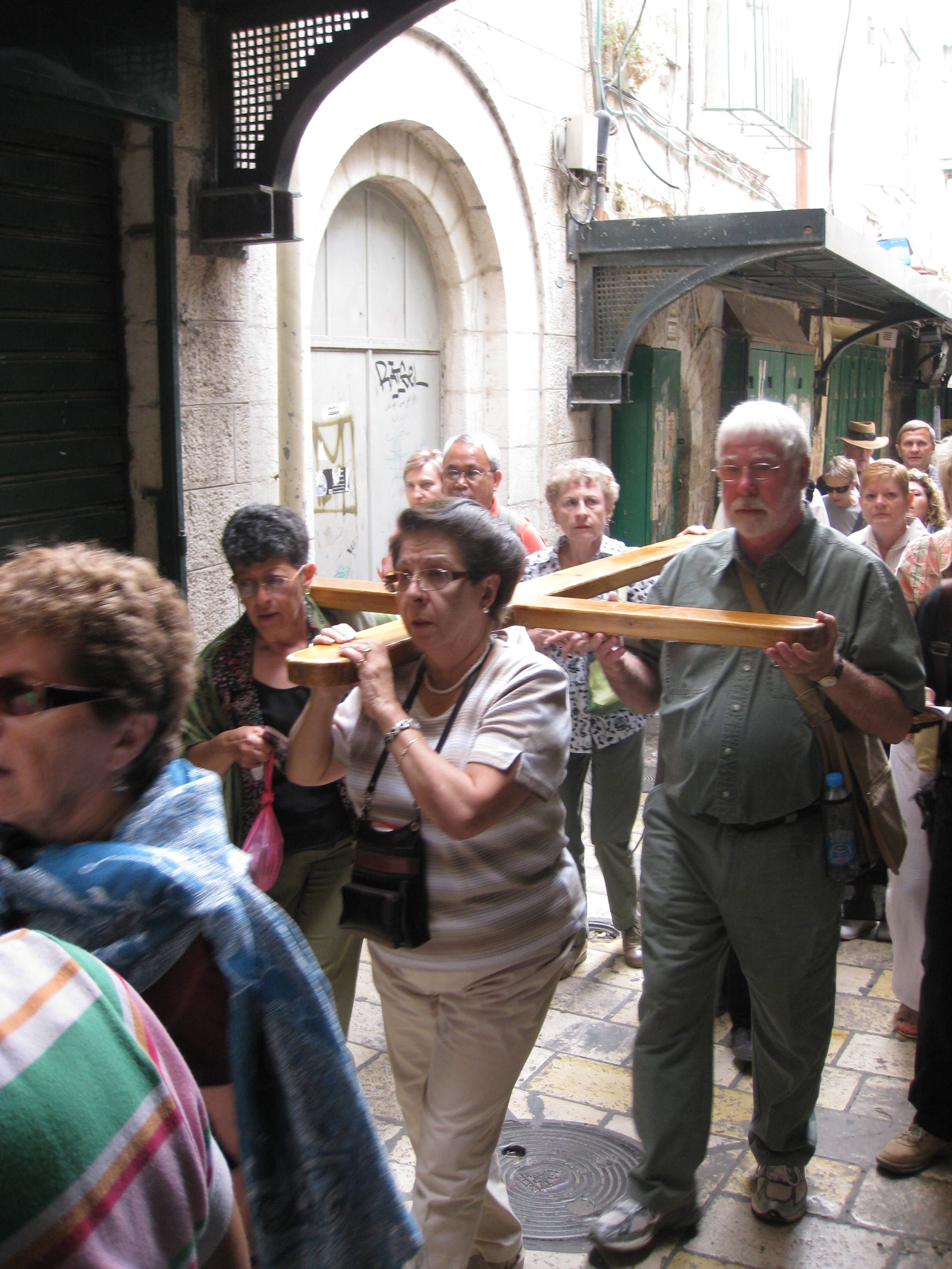 Old Jerusalem, Procession on Via Dolorosa, between 5th and 6th station תהלוכה בויה דולורוזה